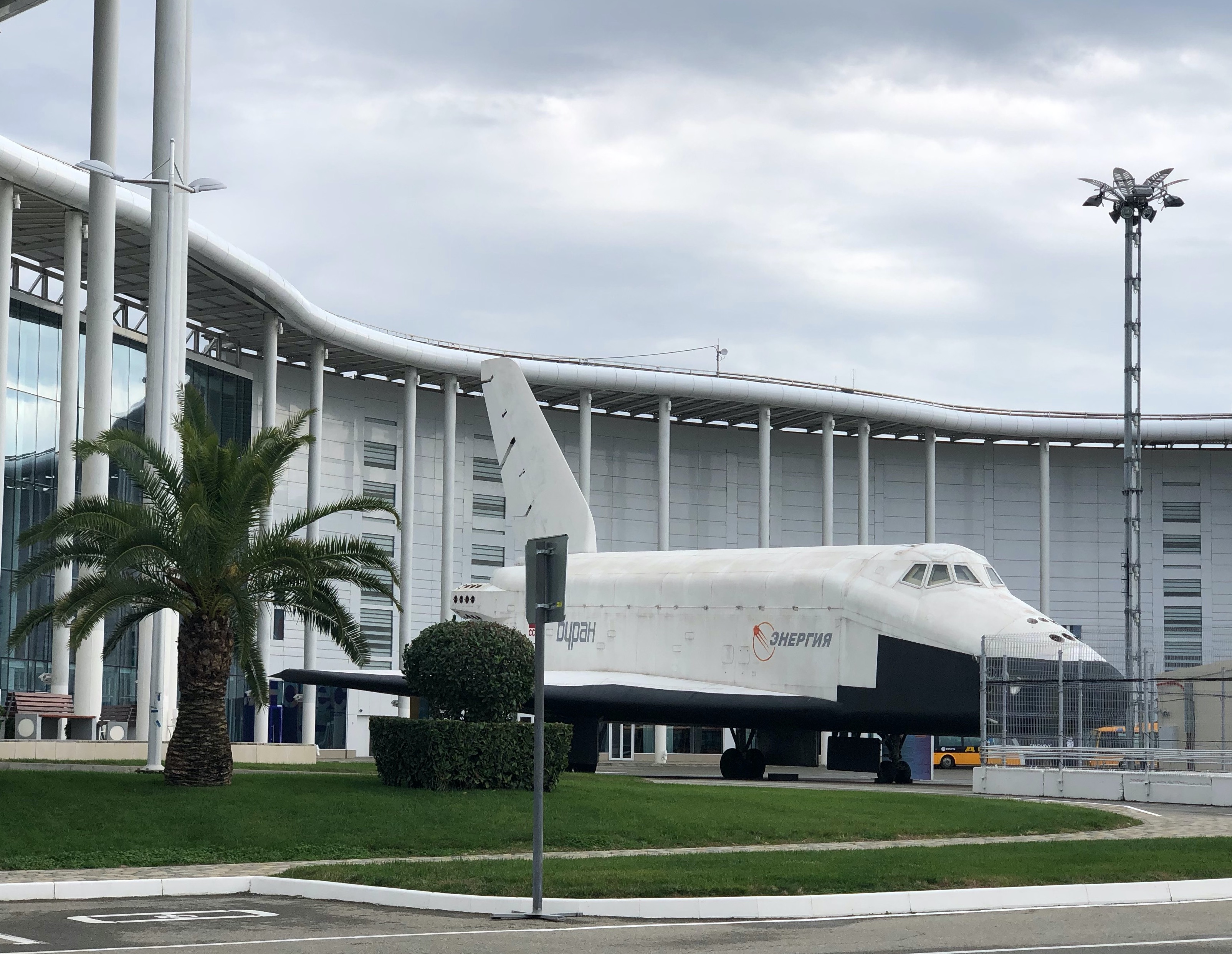 Buran BTS-003 in Sirius Park of Science and Art in Sochi